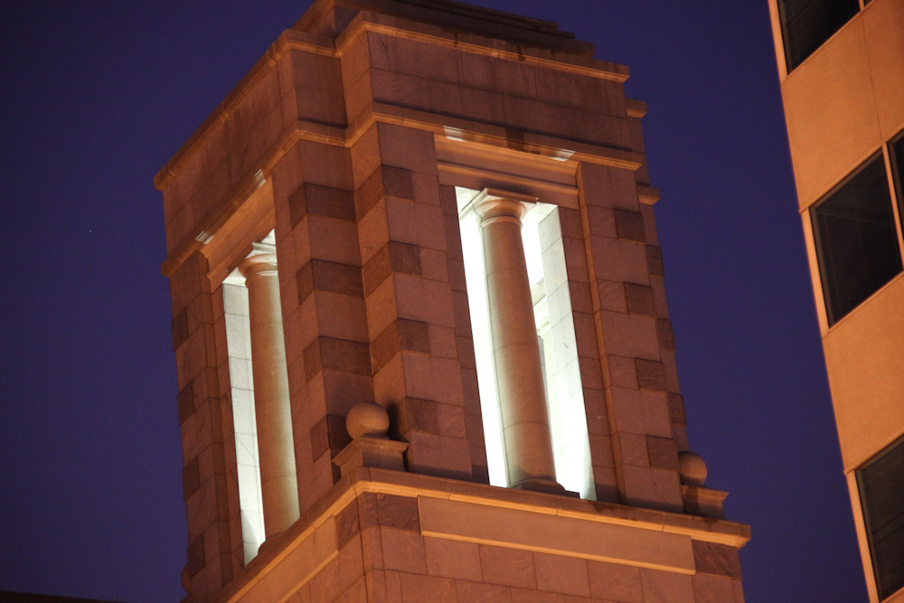 The tower of 1099 14th Street NW (also known as Franklin Court) is lit from within. The building is located in Washington, D.C., in the United States.